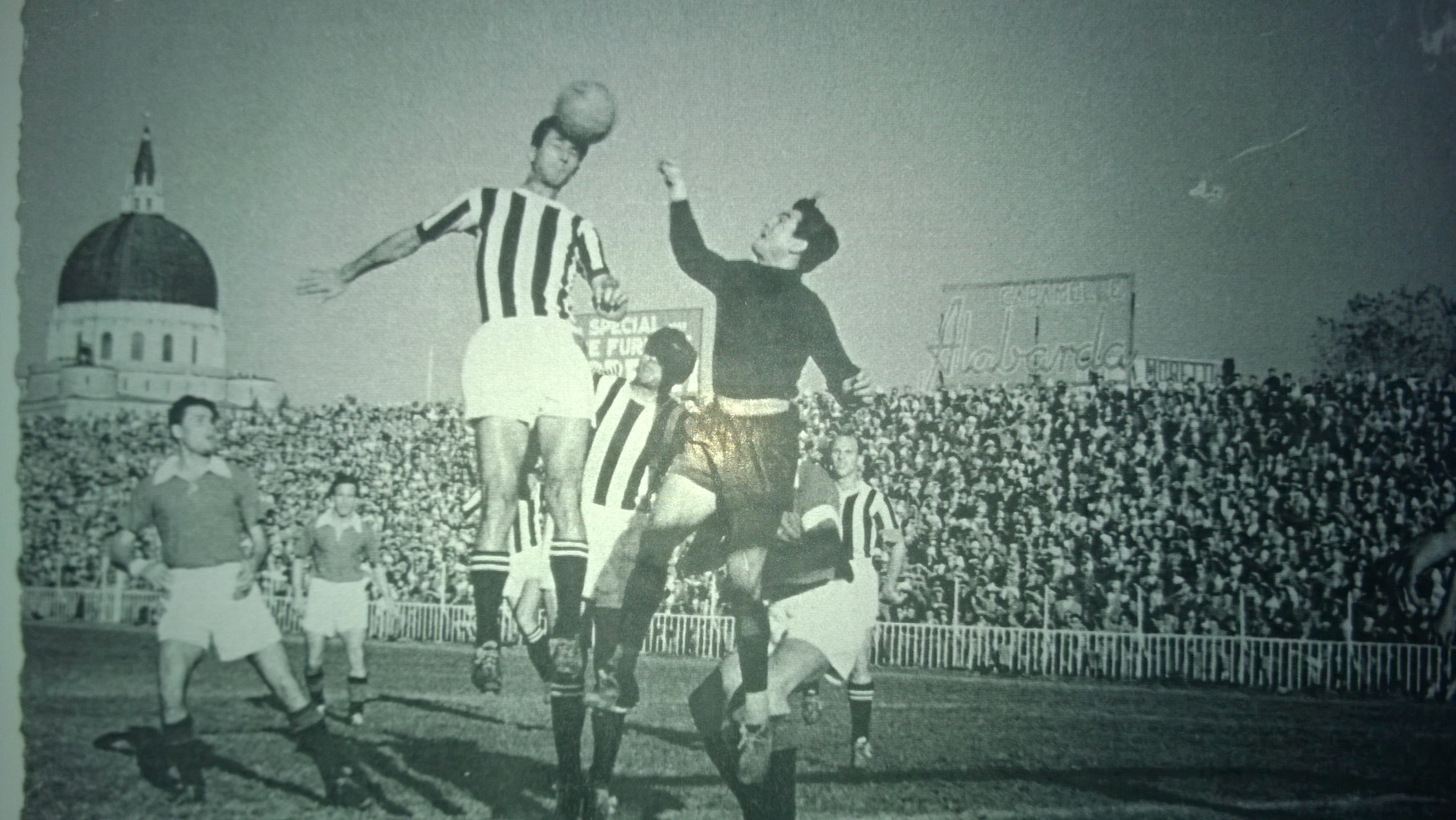 Antonio Bacchetti